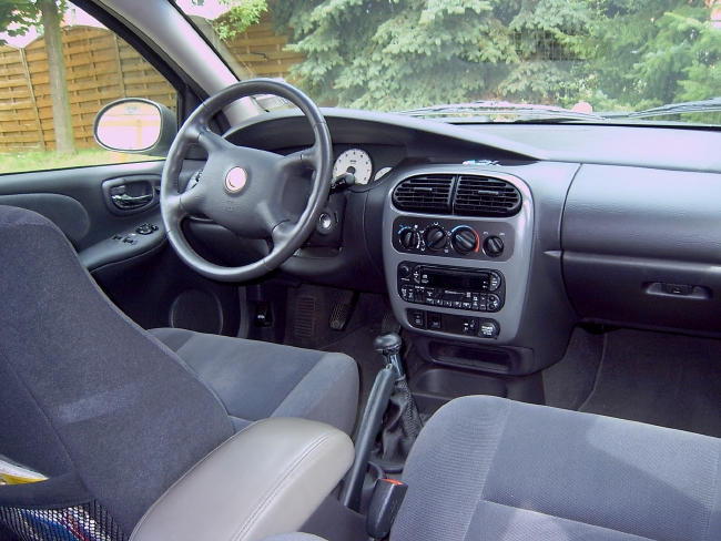 Interior of a 2000 Chrysler Neon LE with manual transmission, manufactured for export to Germany. Innenraum eines 2000er Chrysler Neons LE mit manuellem Schaltgetriebe, deutsches Modell.